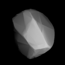 3D convex shape model of 1035 Amata, computed using light curve inversion techniques. J. Hanuš, J. Ďurech, M. Brož, B. D. Warner (June 2011). "A study of asteroid pole-latitude distribution based on an extended set of shape models derived by the lightcurve inversion method". Astronomy and Astrophysics 530: A134. ISSN 0004-6361. arXiv